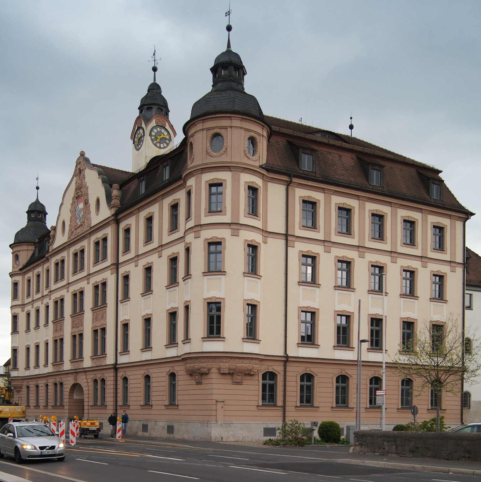 Former main customs office in Würzburg, Bavaria (1907-2007)